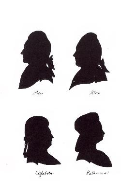 Silhouettes of Catherine (1741-1807), Elisabeth (1743-1782), Peter (1745-1798), and Alexander of Brunswick-Luneburg-Wolfenbuttel (1746-1787). The Danish State Archives.